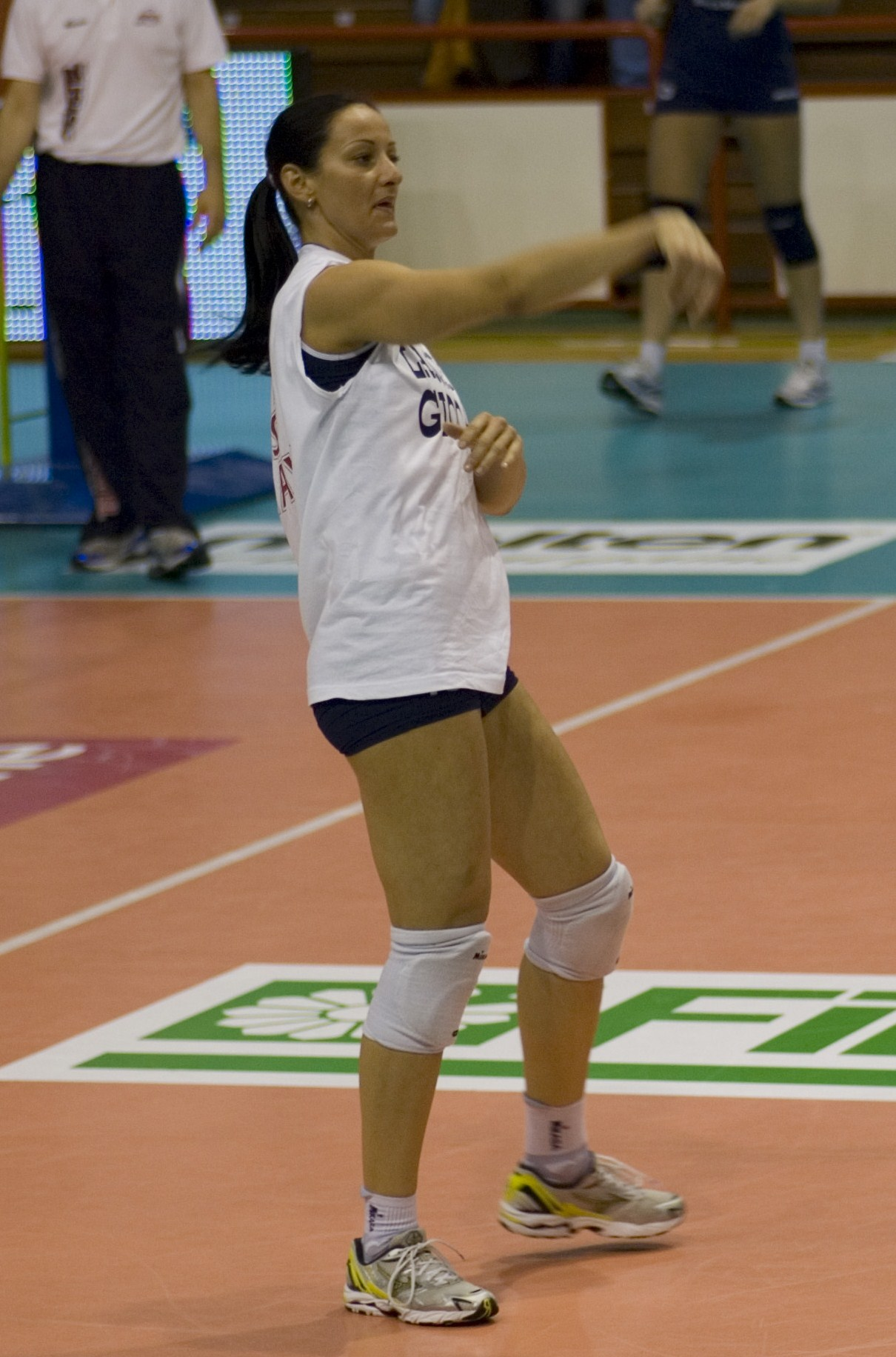 Croatian volleyball player Natasa Osmokrovic